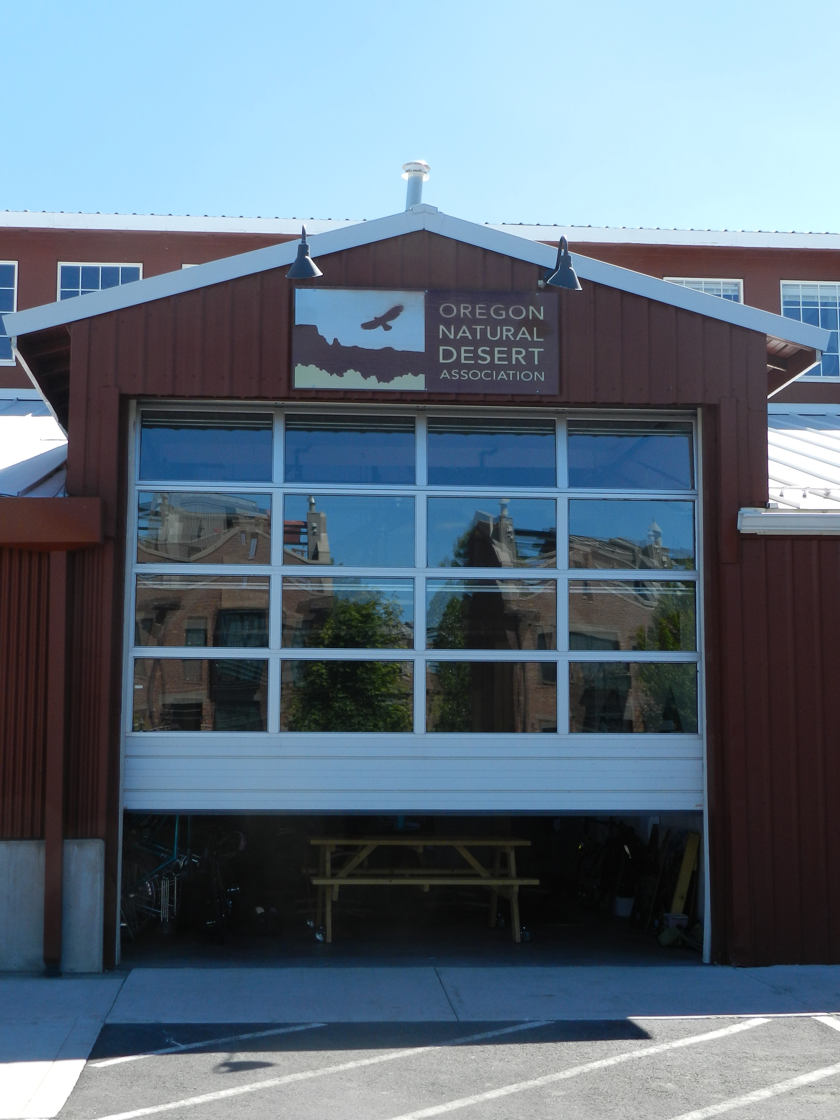 A photo of the signage and garage door of the Oregon Natural Desert Association.